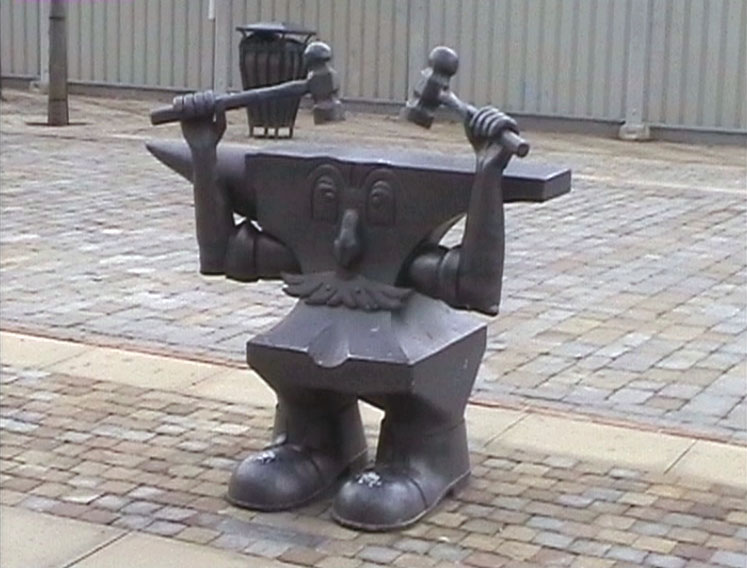 "Anvil Man", a small statue by Stephen Lunn, outside Fareham Shopping Centre